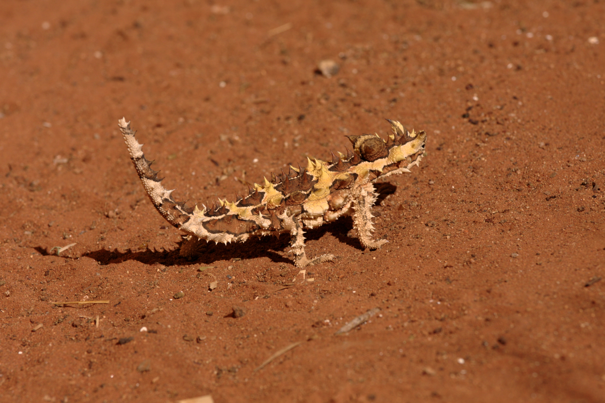 A Thorny Devil in Australia.